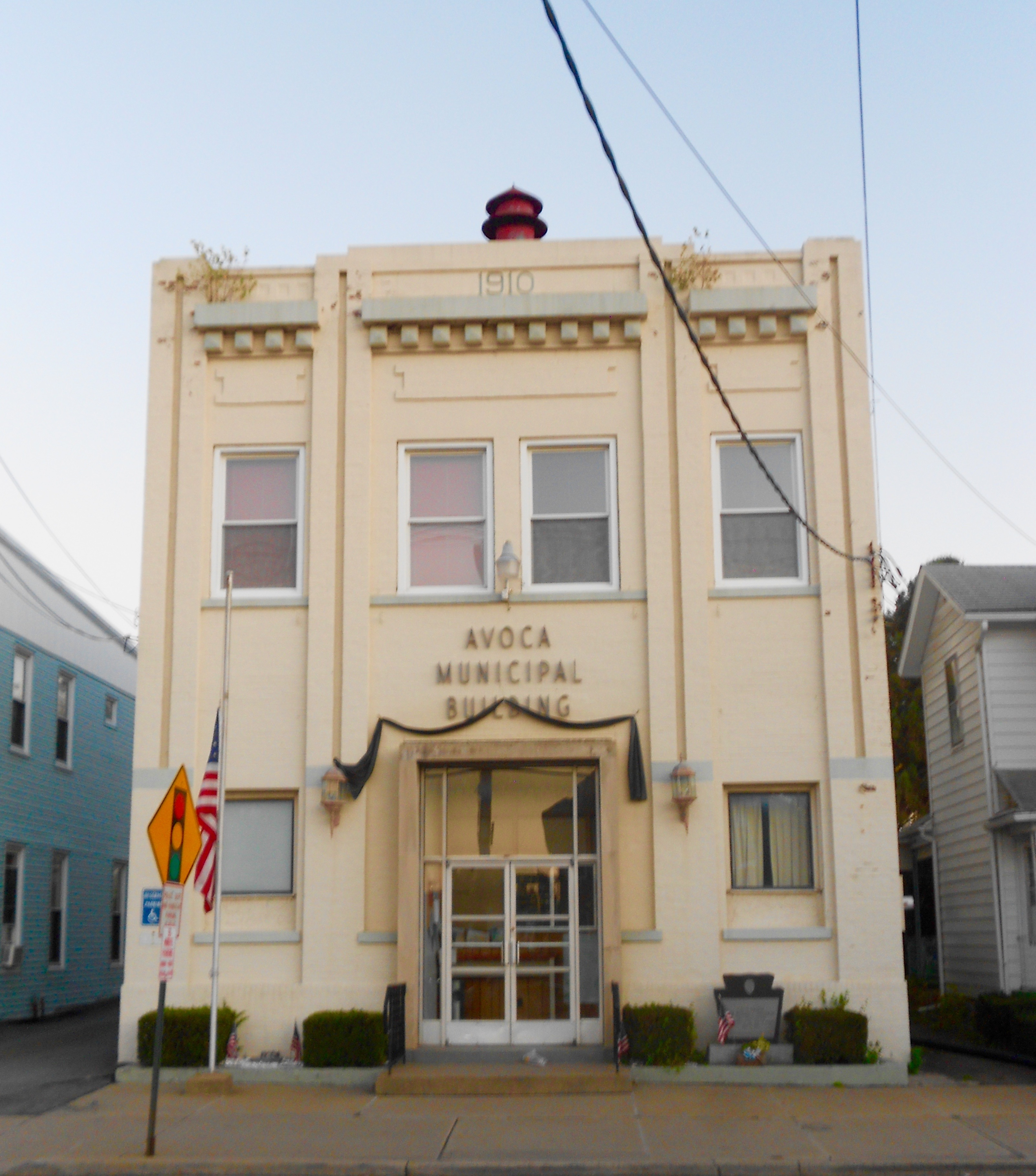 The 1910 Municipal Building in Avoca, Pennsylvania. here is a new Muni Building, which looks complete except for the furniture